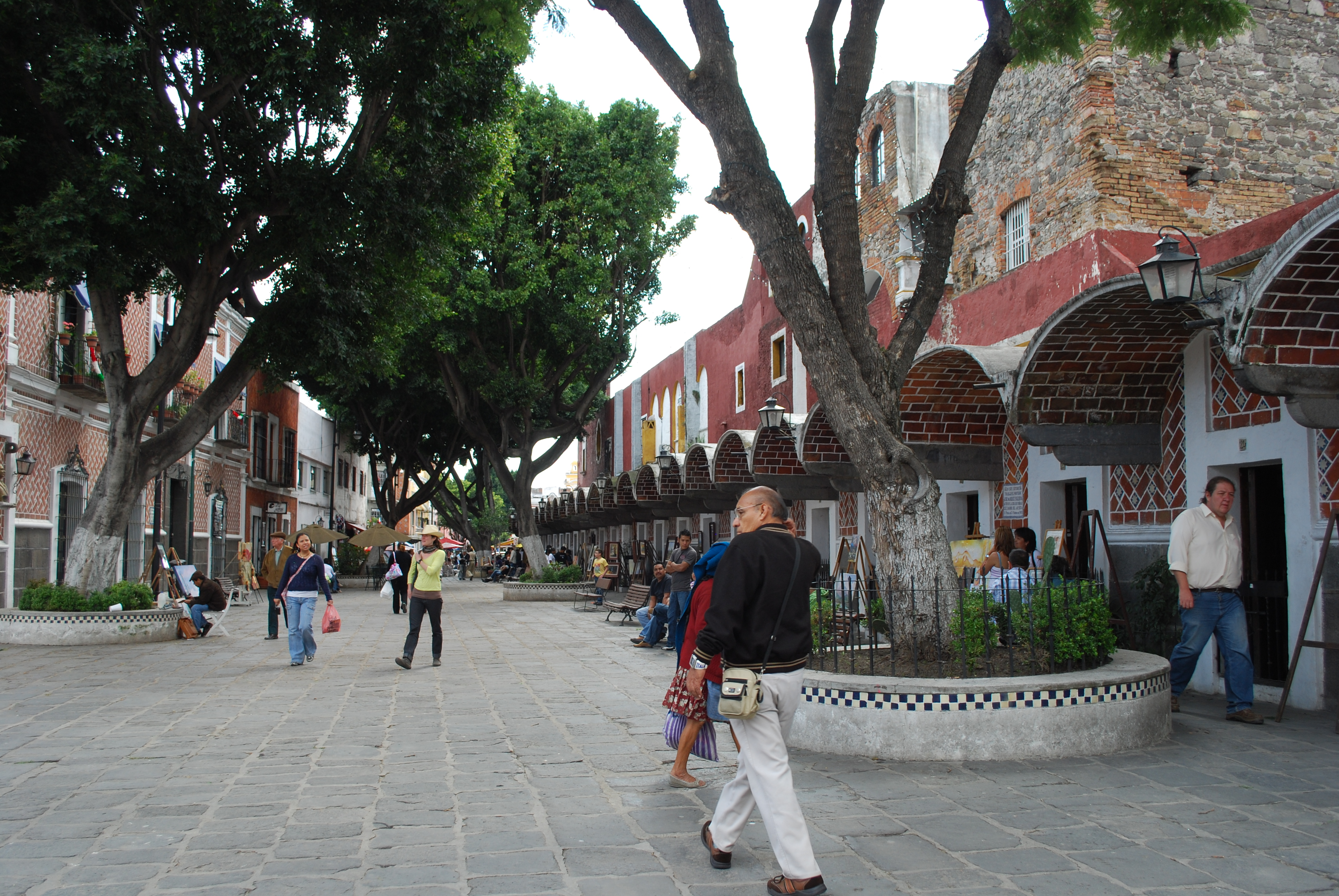 View of the pedestrian area of the Barrio del Artista, Puebla, Mexico